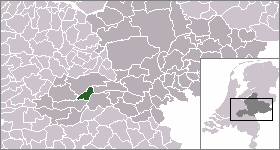 Locator map of Dutch municipalities in Gelderland (LocatieTiel.png)